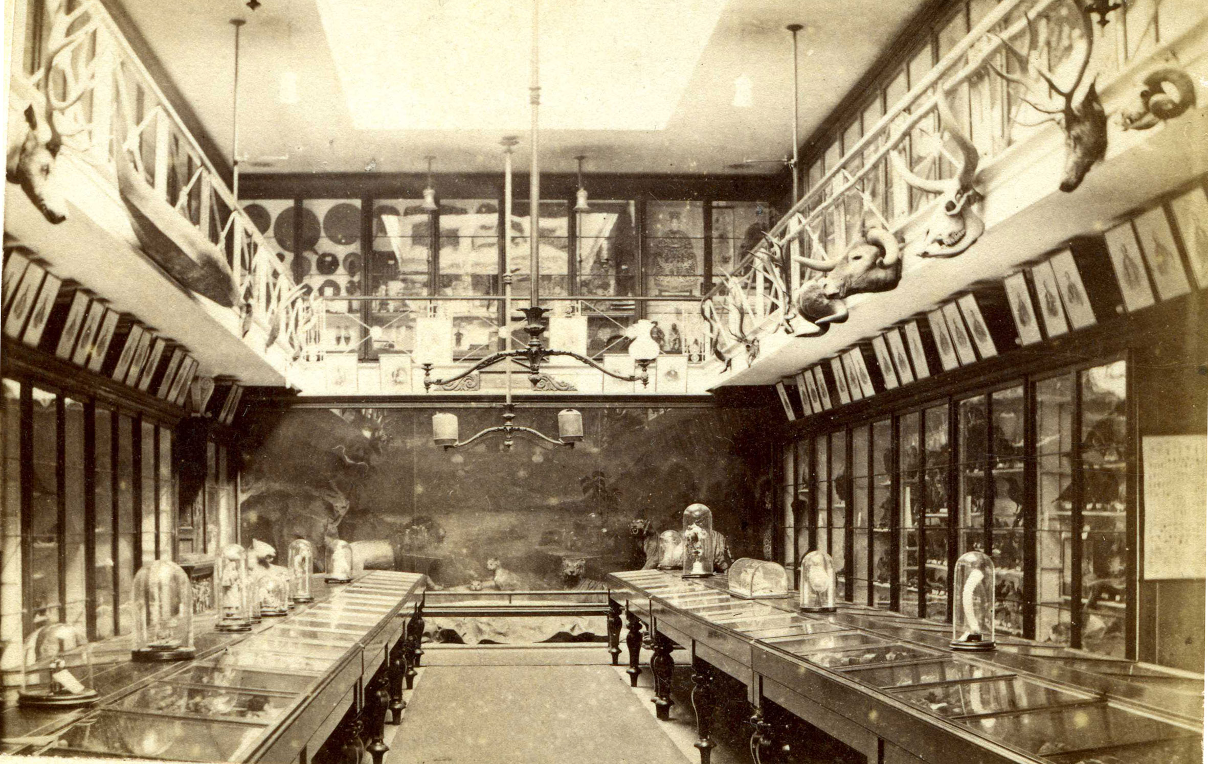 Scan from original print c 1875